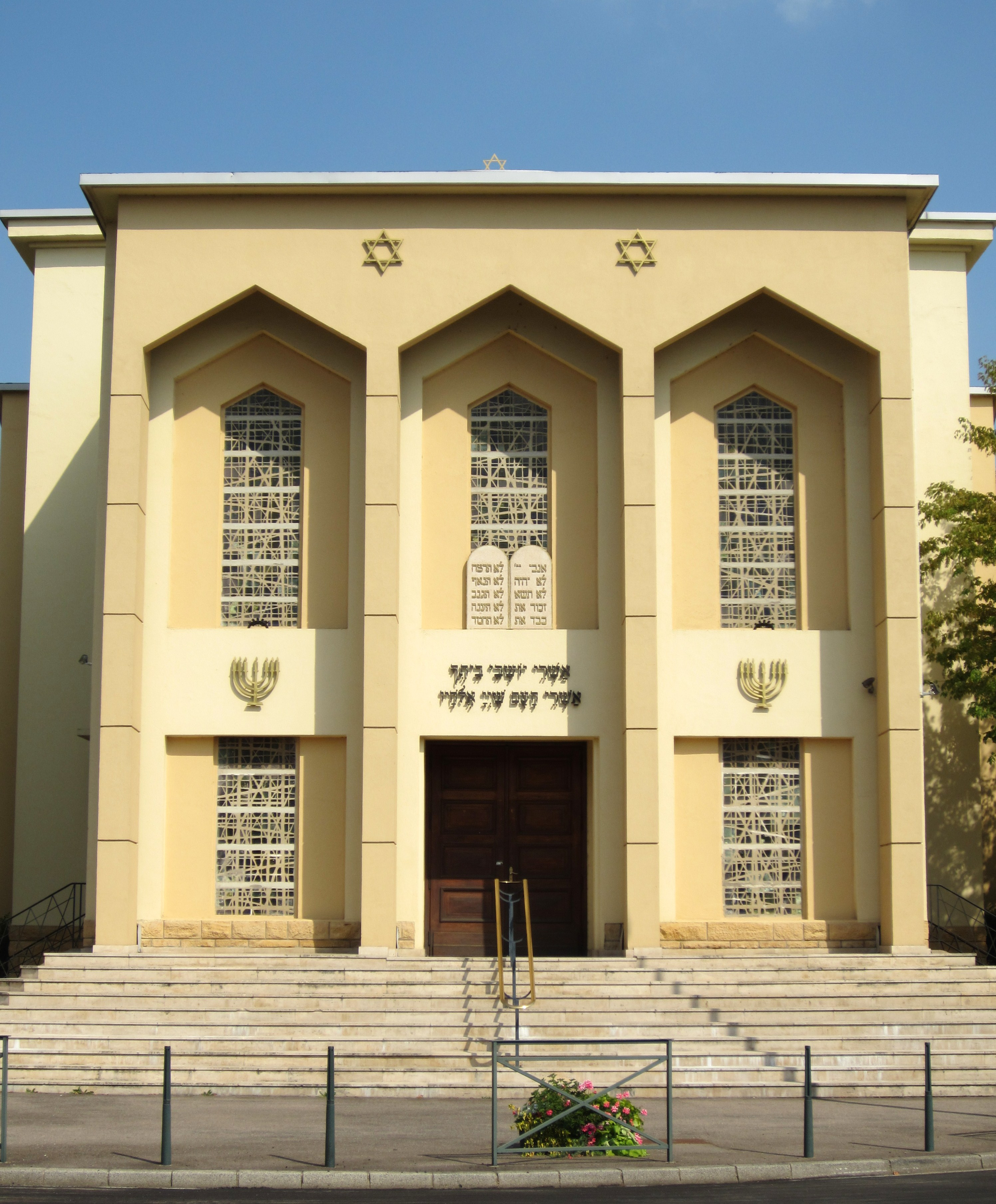 Description synagogue Thionville Date26 August 2011Sourcemon appareil photoAuthorAimelaimePermission (Reusing this file) synagogue Thionville